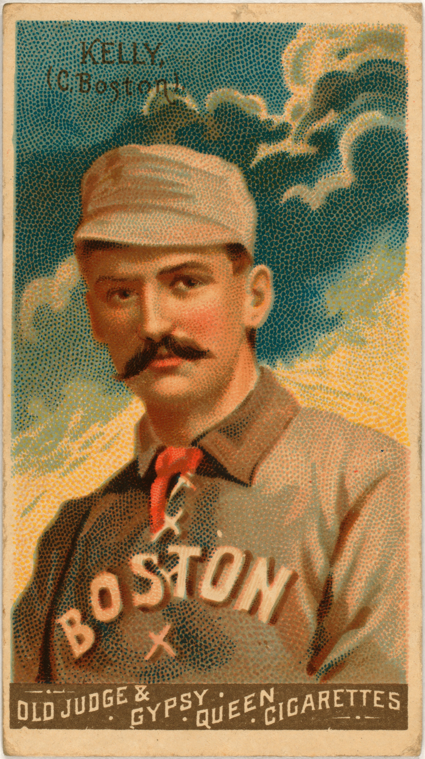 King Kelly – catcher, Boston Beaneaters, National League Taken from full-size tiff file Edges: skewed to set vertical/horizontal Borders: Desaturated (-60), lightened (+20), contrast enhanced (+10), cropped (10px border) Card: Contrast enhanced (+5), blemish under moustache manually repaired Image downsampled nonproportional to 2500x1400px, 100ppi Converted to jpg at 8/10, 5 progressive scans